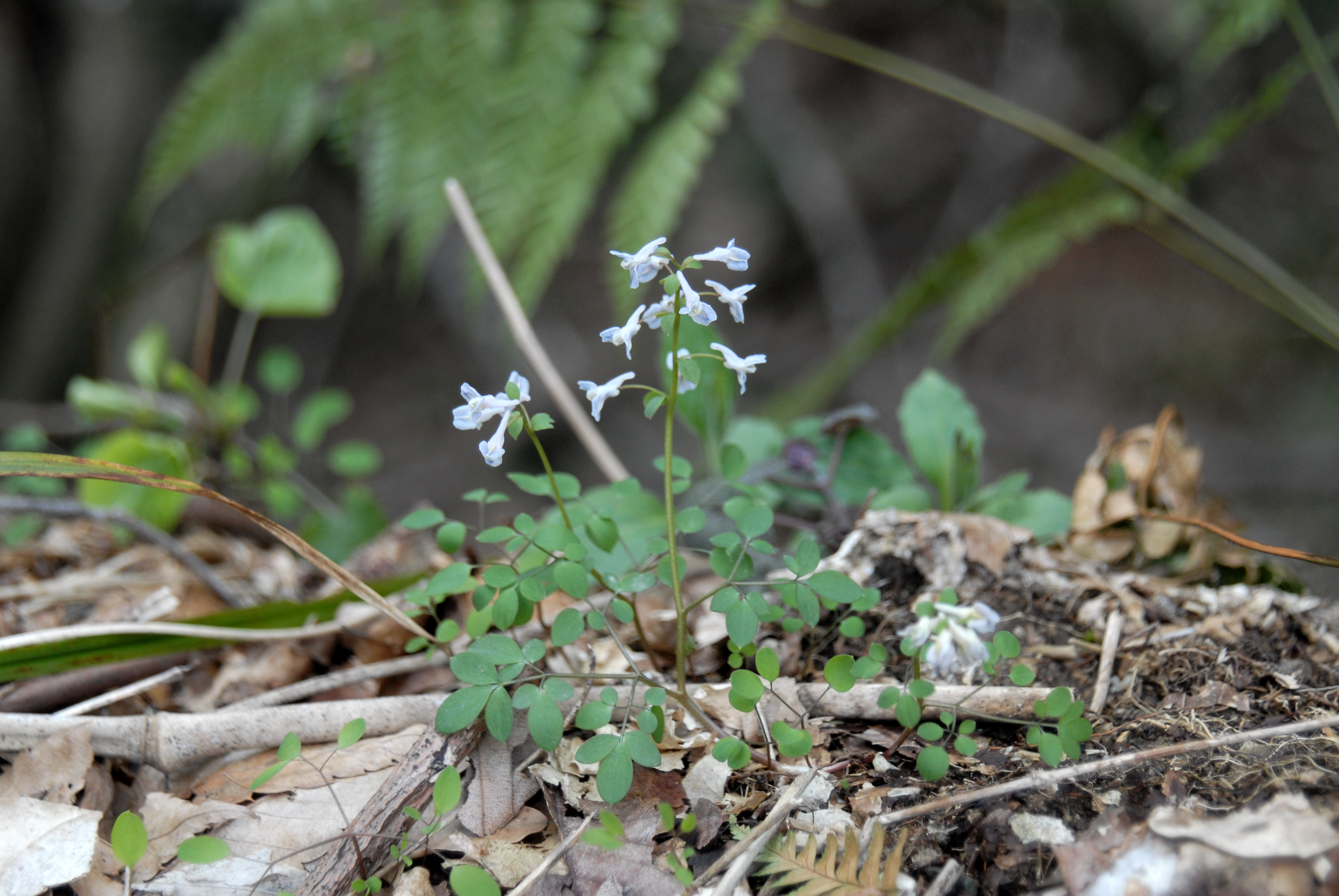 Corydalis orthoceras, Kamo-city Niigata-ken Nippon